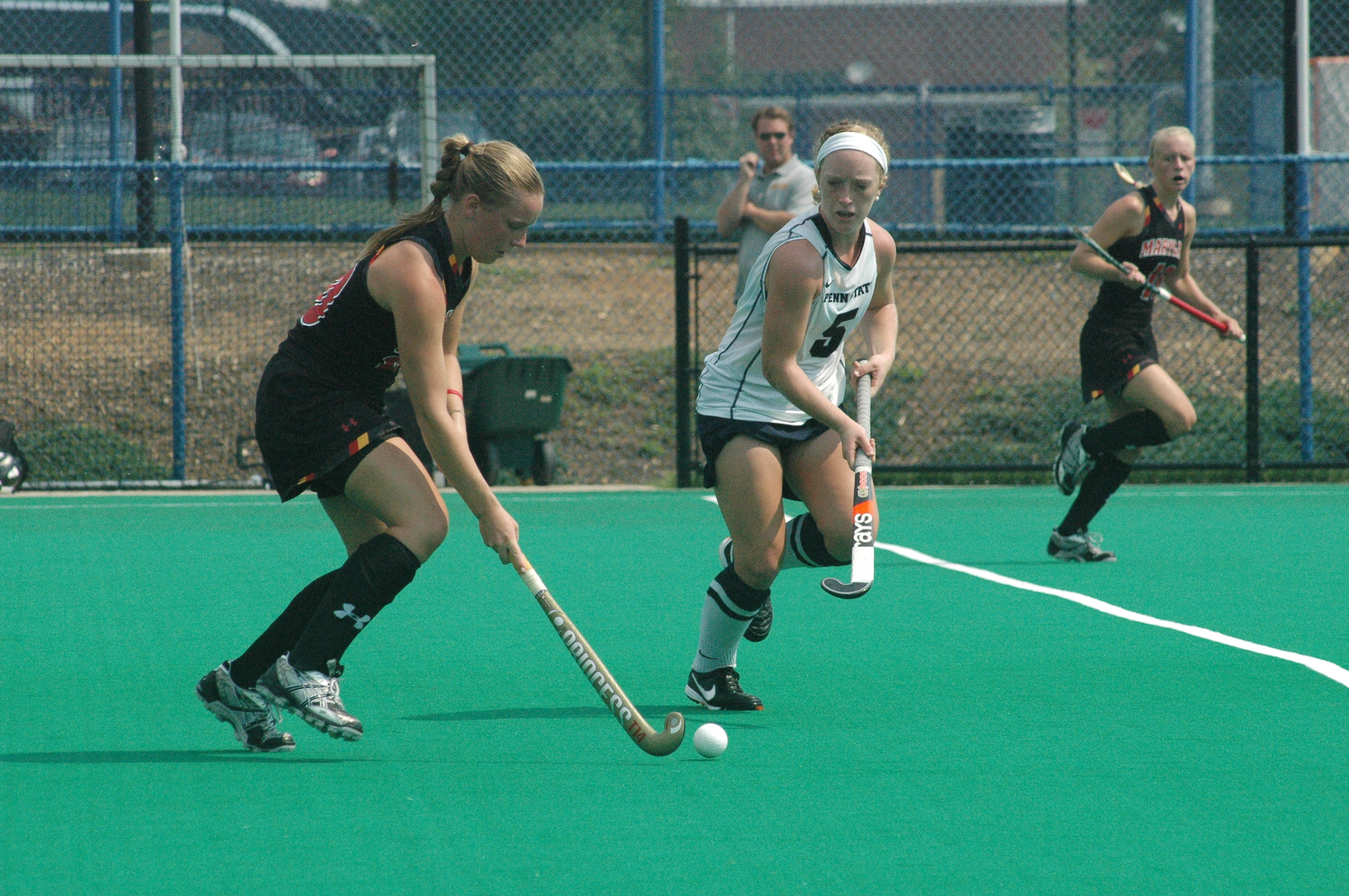 The Maryland Terrapins vs. the Penn State Nittany Lions during an exhibition field hockey game in University Park, Pennsylvania.